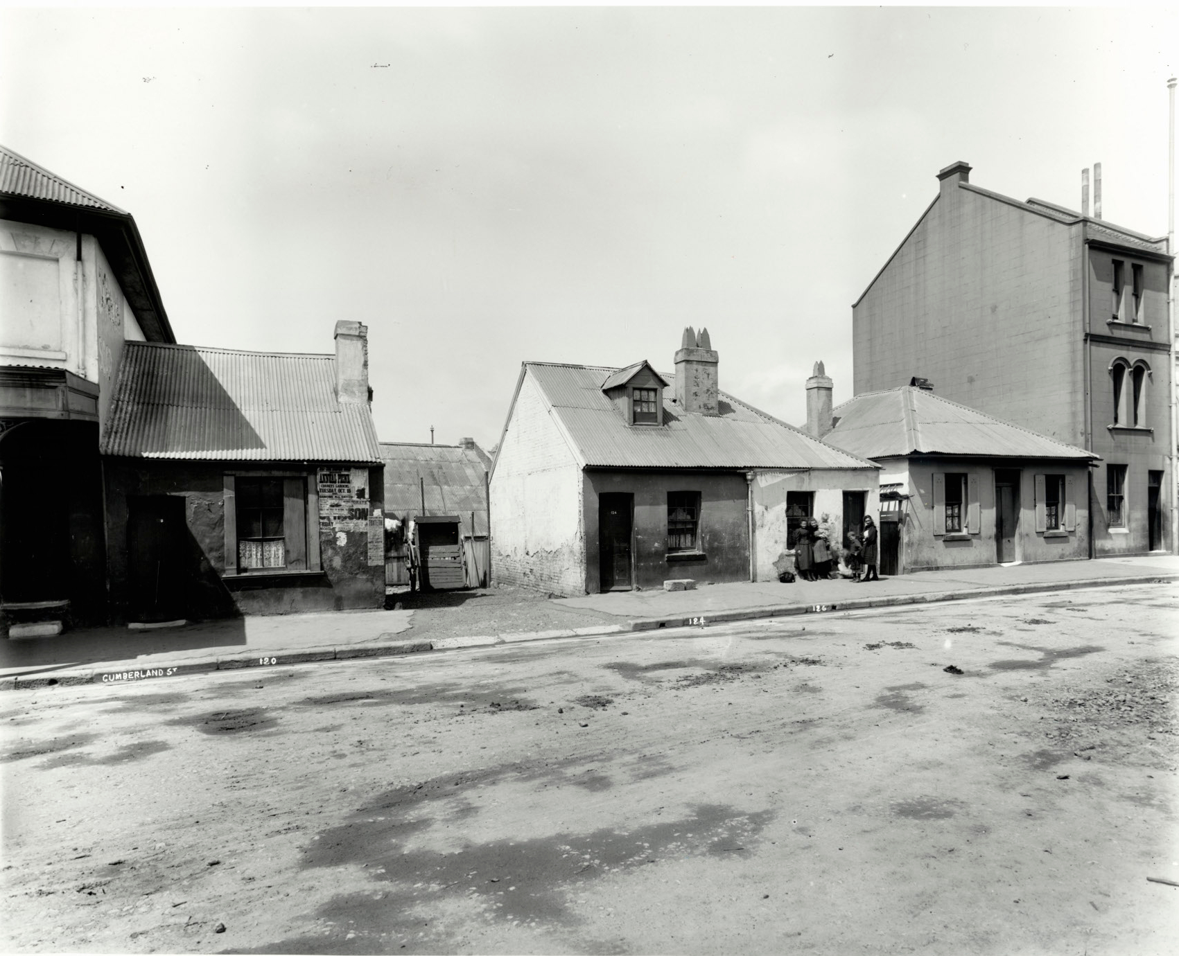 Title: Cumberland Street (Numbers 120-130), The Rocks (NSW) [Rocks Resumption photographic survey] Dated: by 31/10/1901 Digital ID: Series: Government Printing Office glass plate negatives Rights: No known copyright restrictions We'd love to if you use our photos/documents. Many other photos in our collection are available to view and browse on our website using